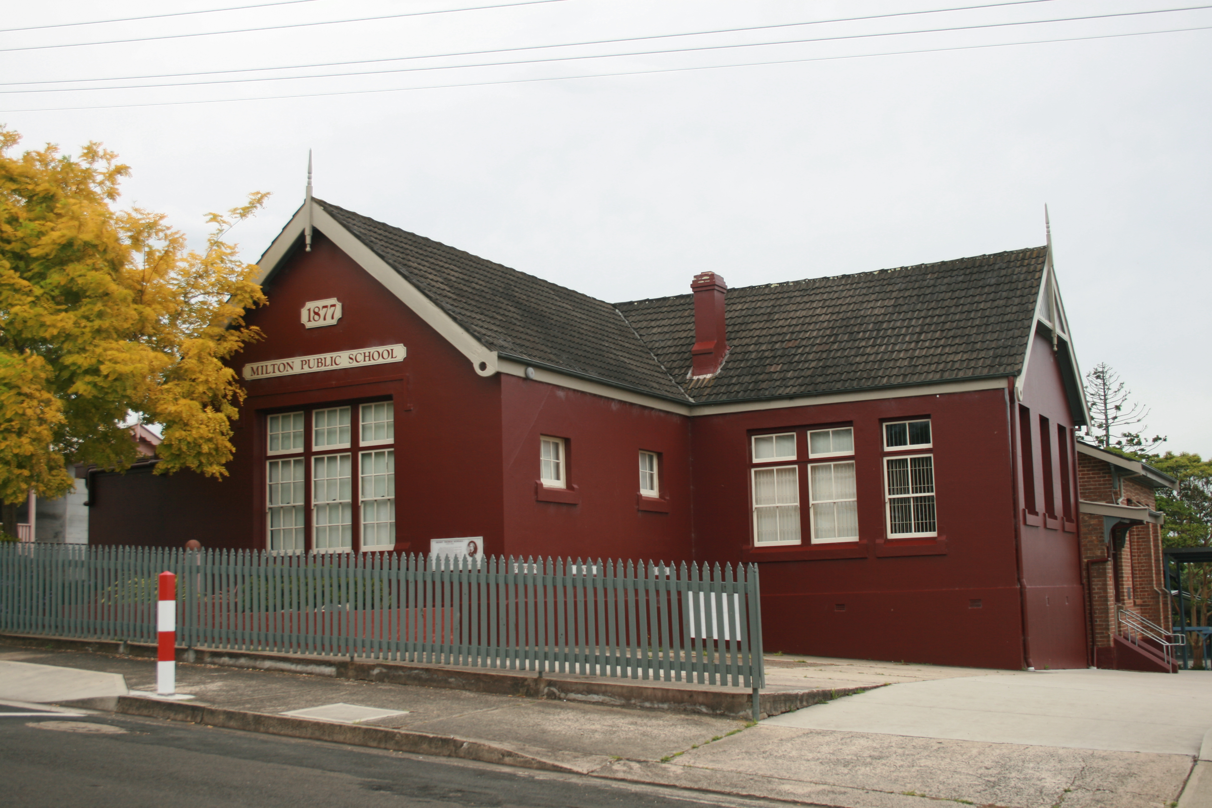 Public School building in Milton, NSW, Australia.